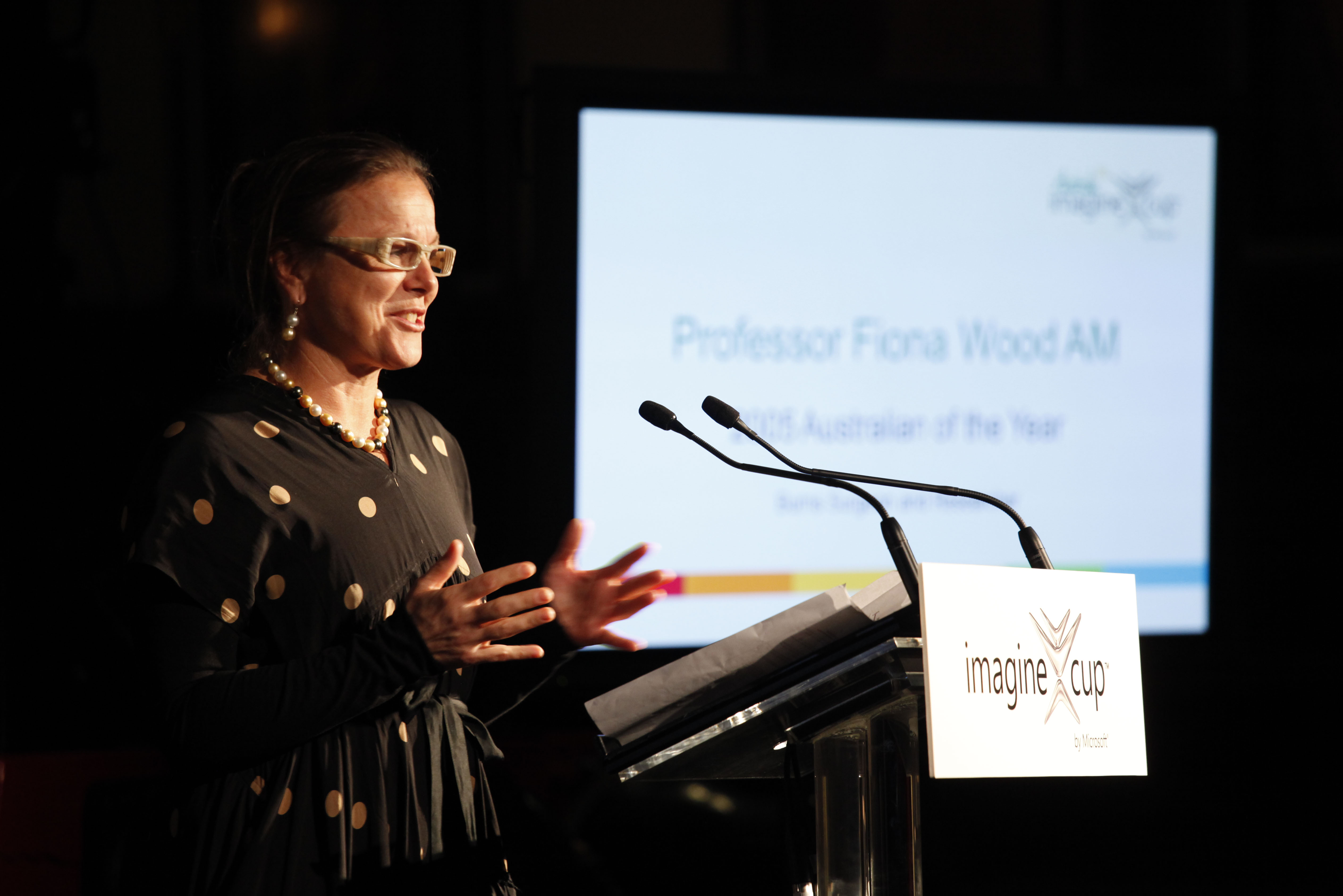 Professor Fiona Wood speaks at the Microsoft Australia Imagine Cup 2012 announcement in Sydney.